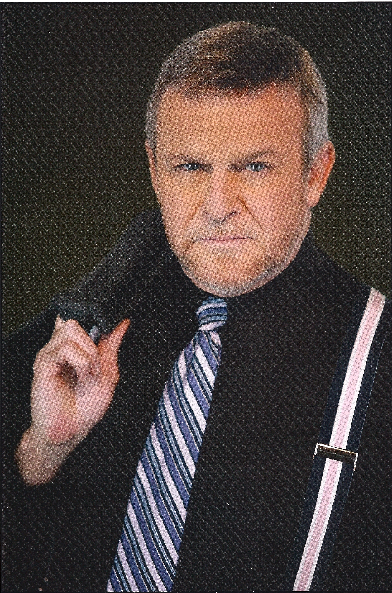 Actor and vocalist Ron Raines